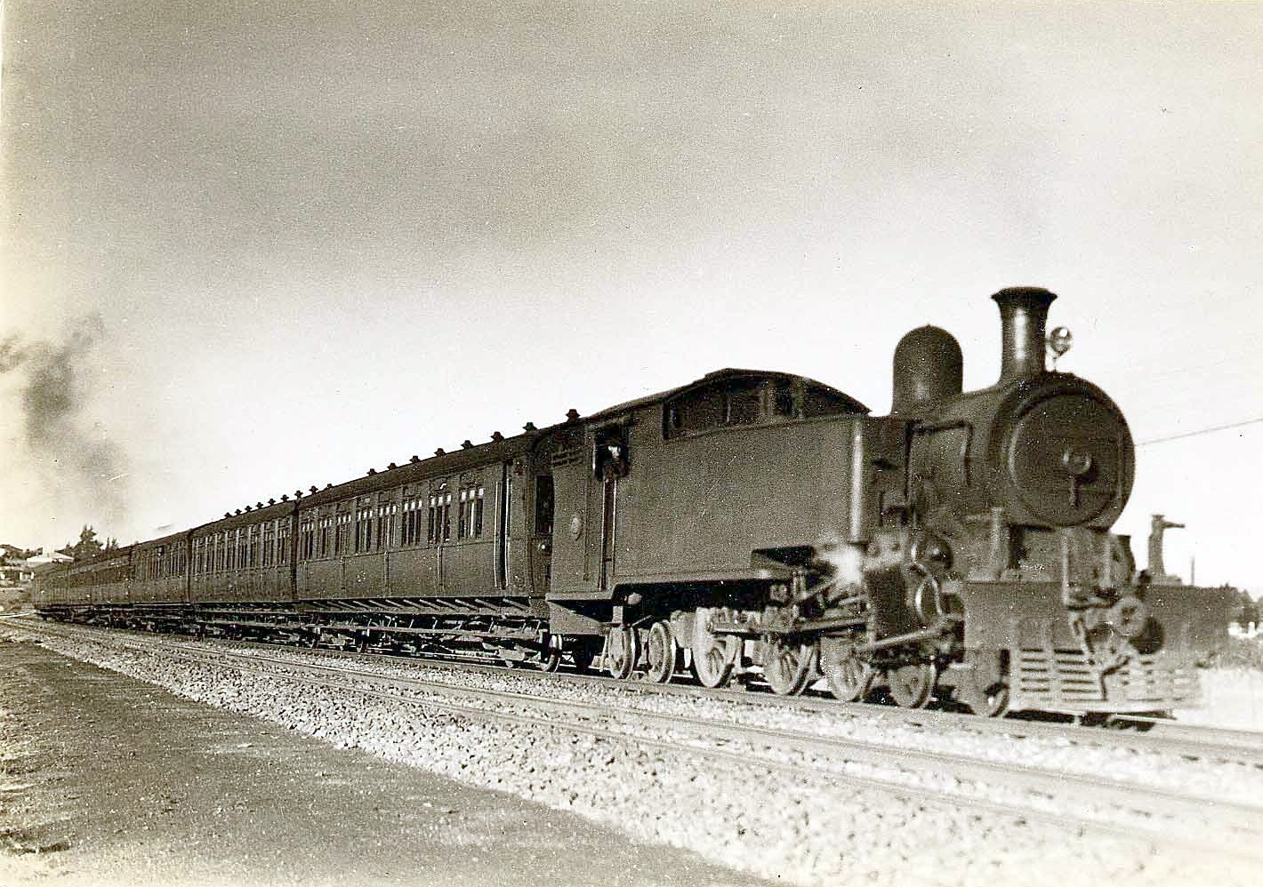 SAR Class K (4-6-4T) Class K on up local between Maraisburg and Florida